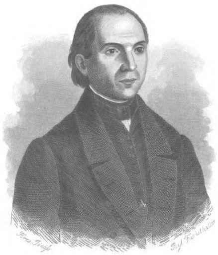 Andrej Sládkovič